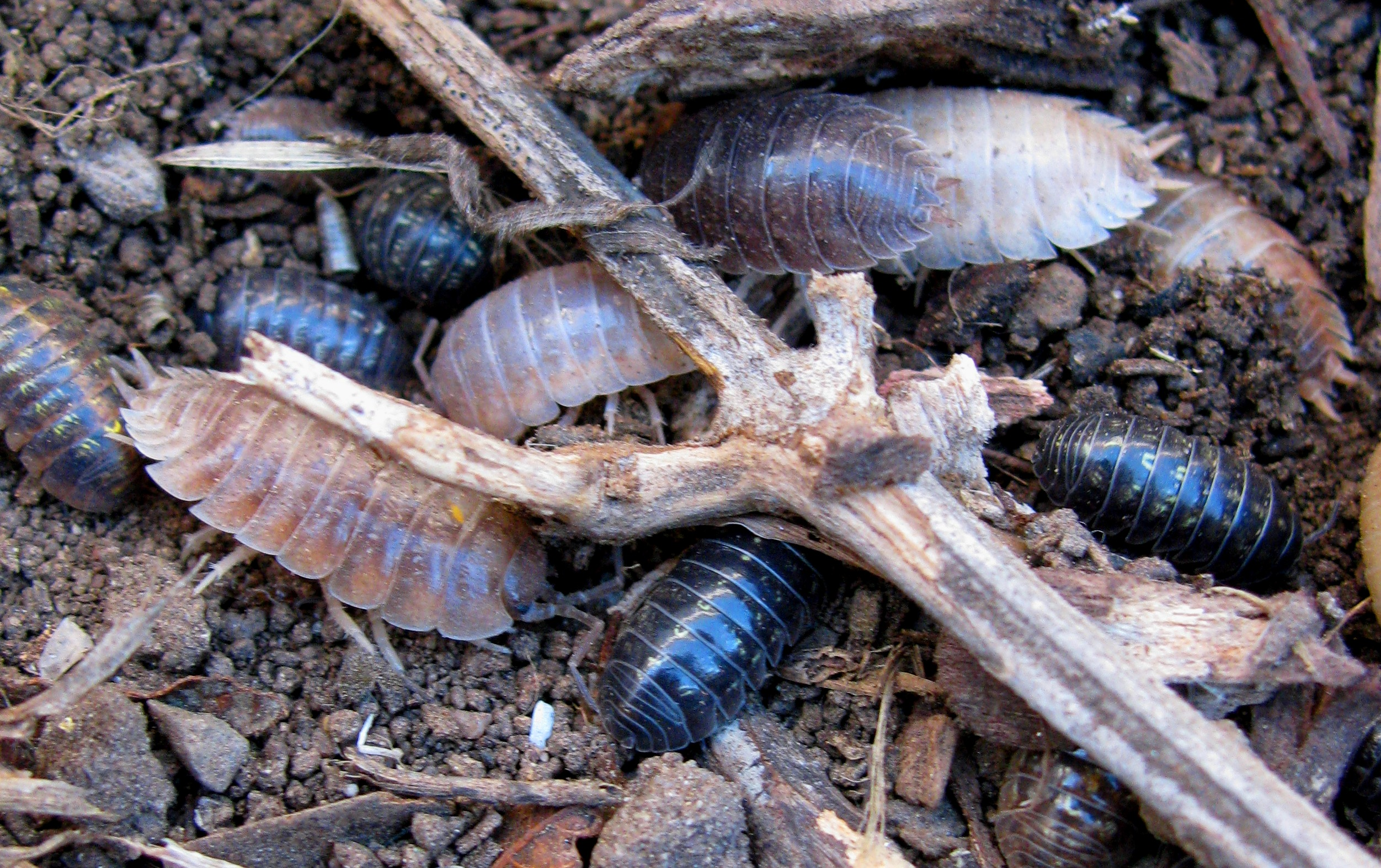 Some things found under a rock by User:Antandrus. For illustrating an essay, perhaps.